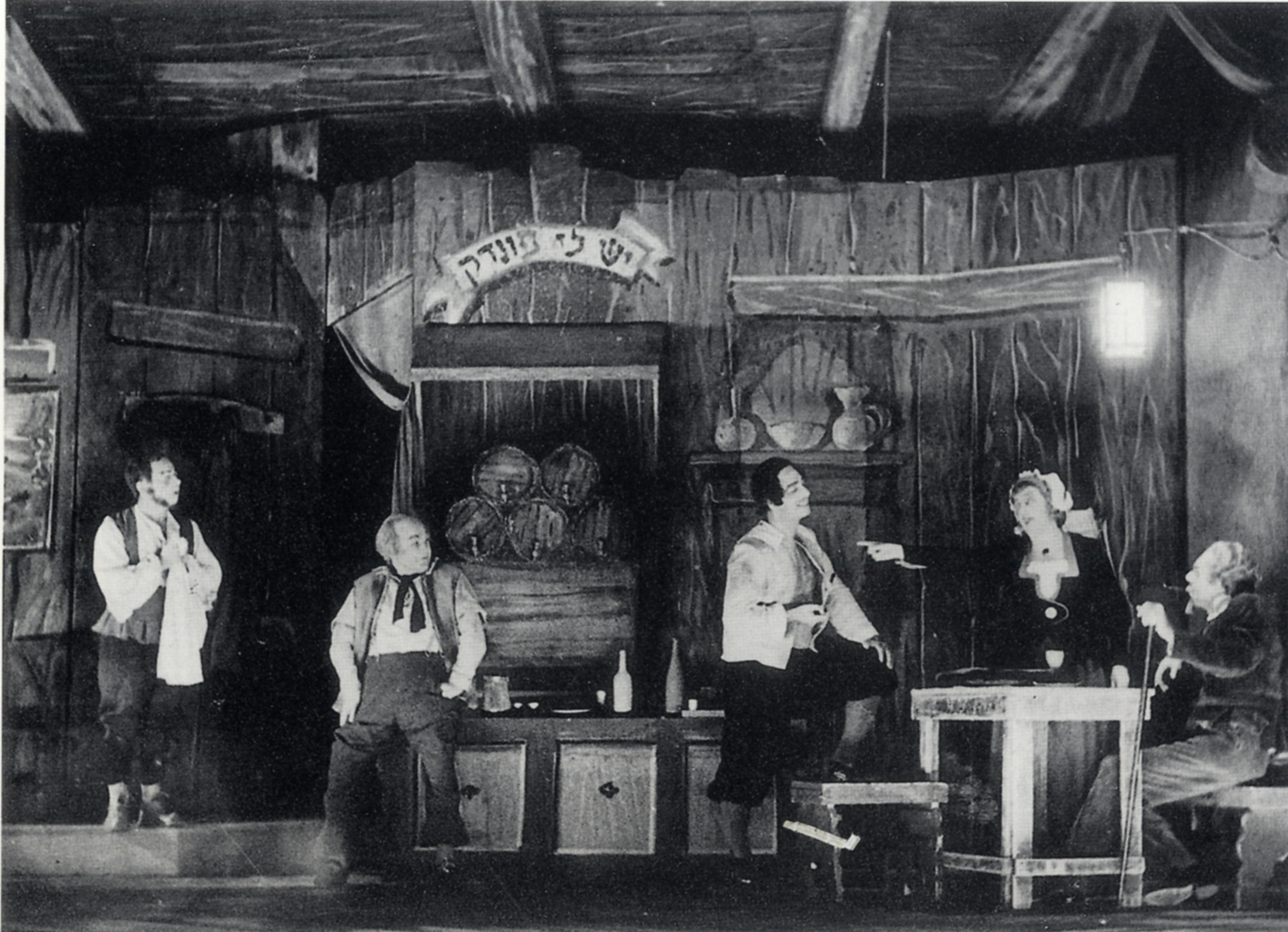 Maase behayat" (A story about a tailor), 1947, the Ohel. set design by Arie Aroch.